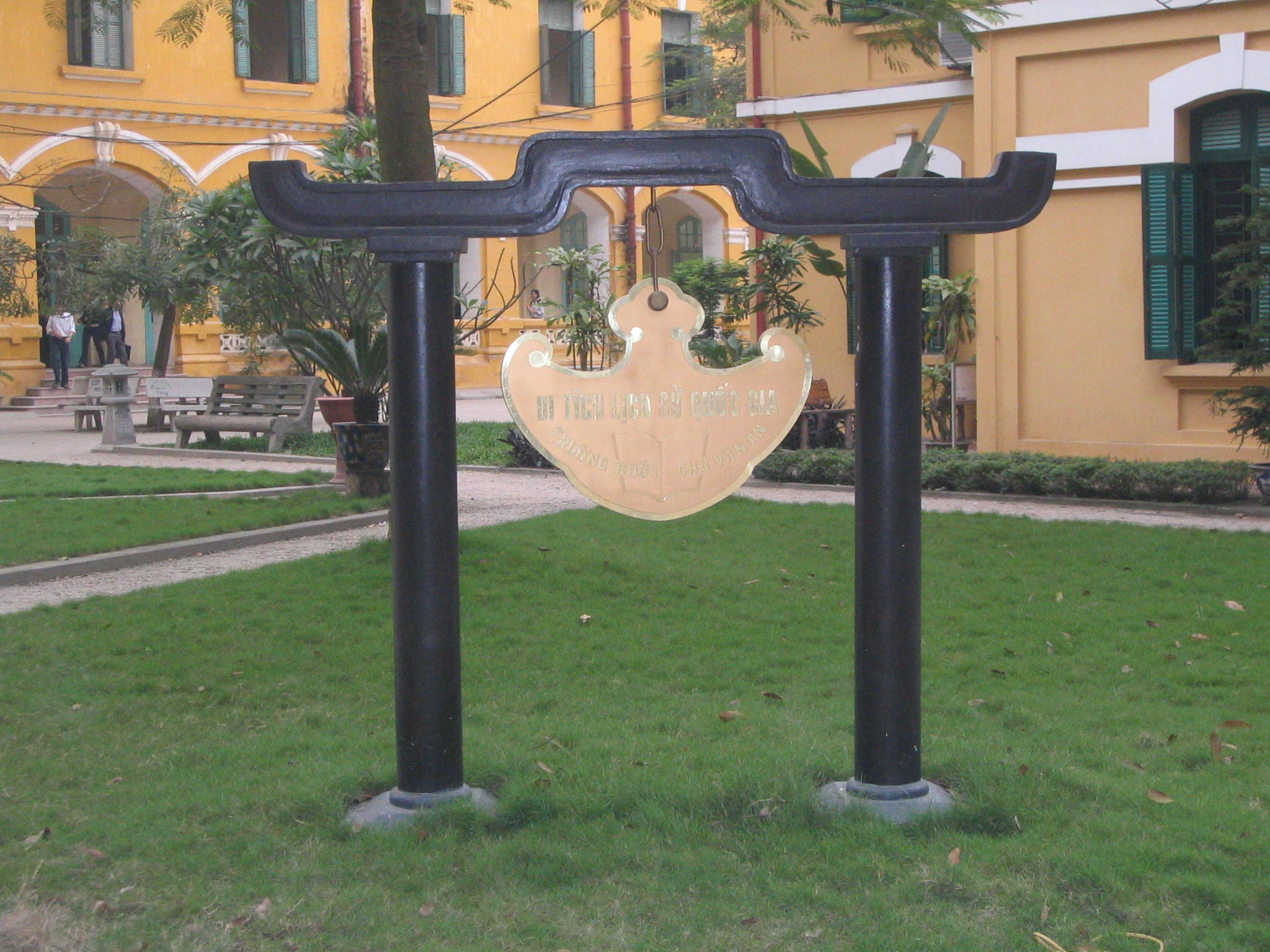 A board showing certification of a National Historical Site in Chu Văn An High School Campus.